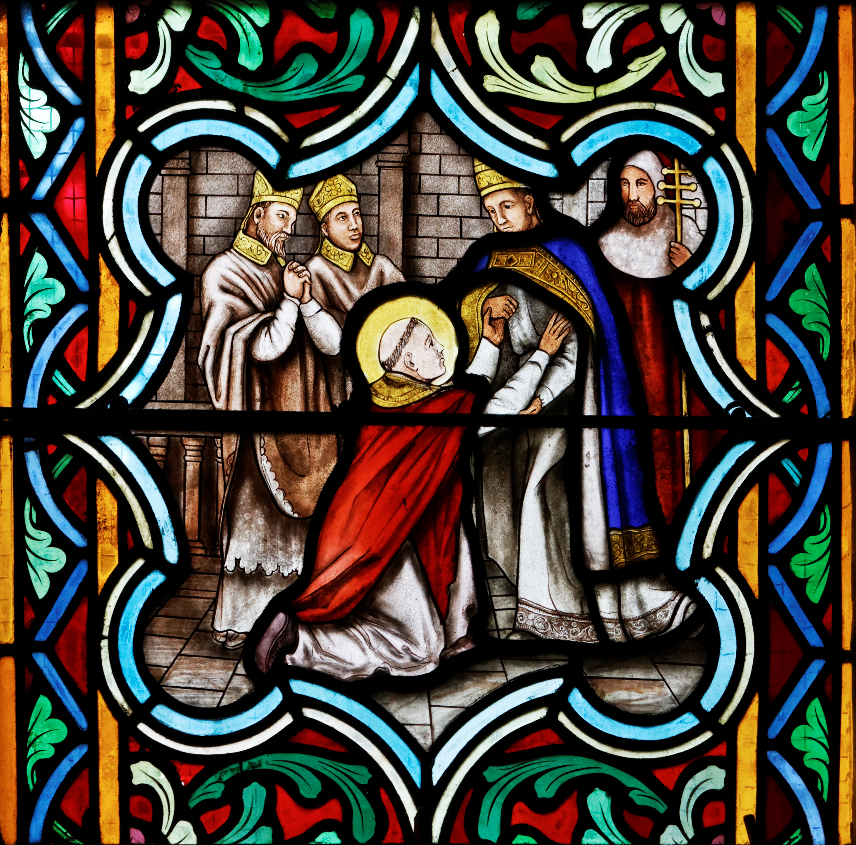 St Anselme before Pope Urban II. Panel 12 of the Vitrail of St Anselm in St Corentin Cathedral in Quimper, Finistère, Brittany, France.